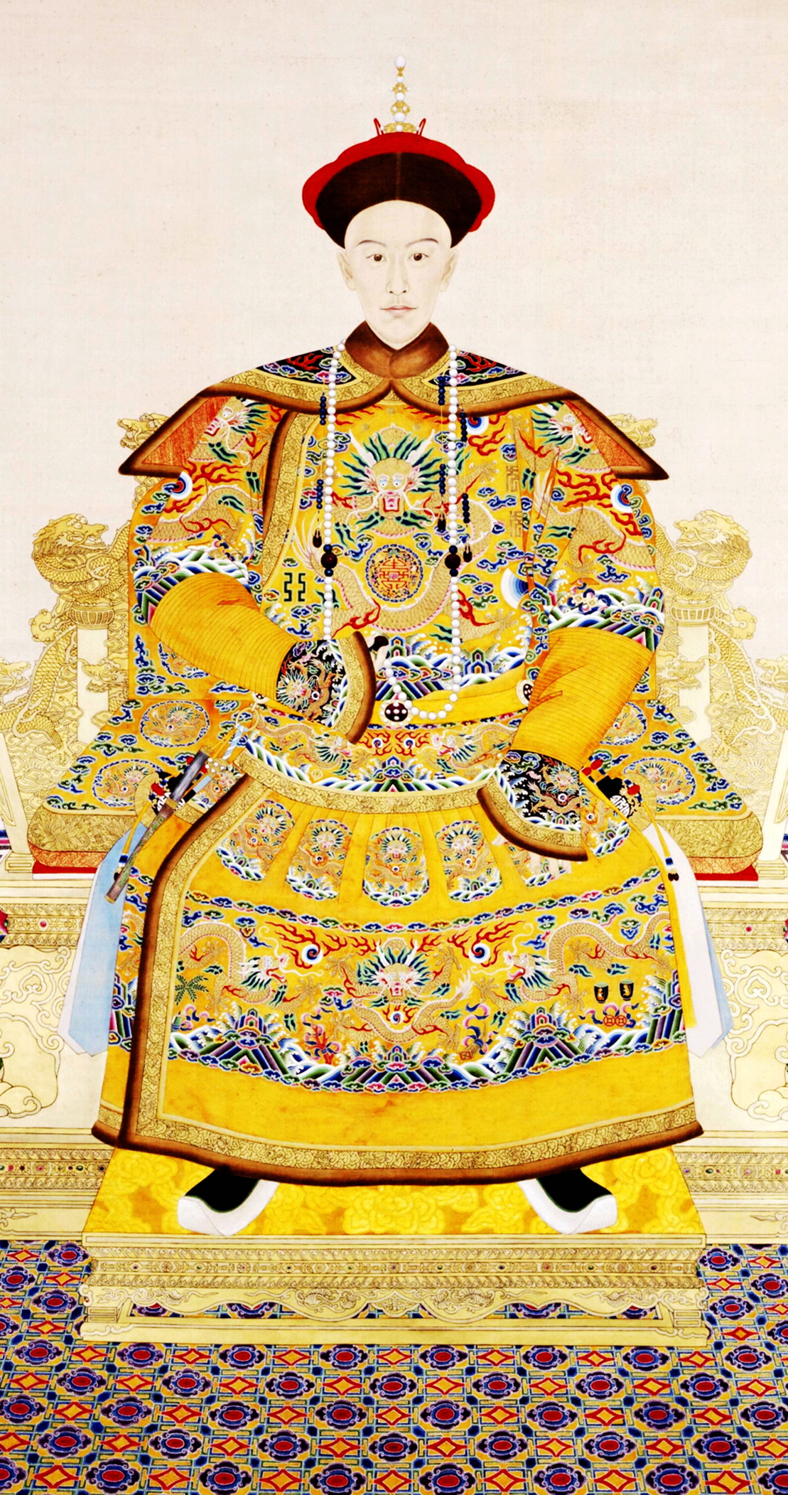 The Emperor Guangxu of China. Bân-lâm-gú: Tshing-tiâu Kong-sū hông-tè. 清朝光緒皇帝。